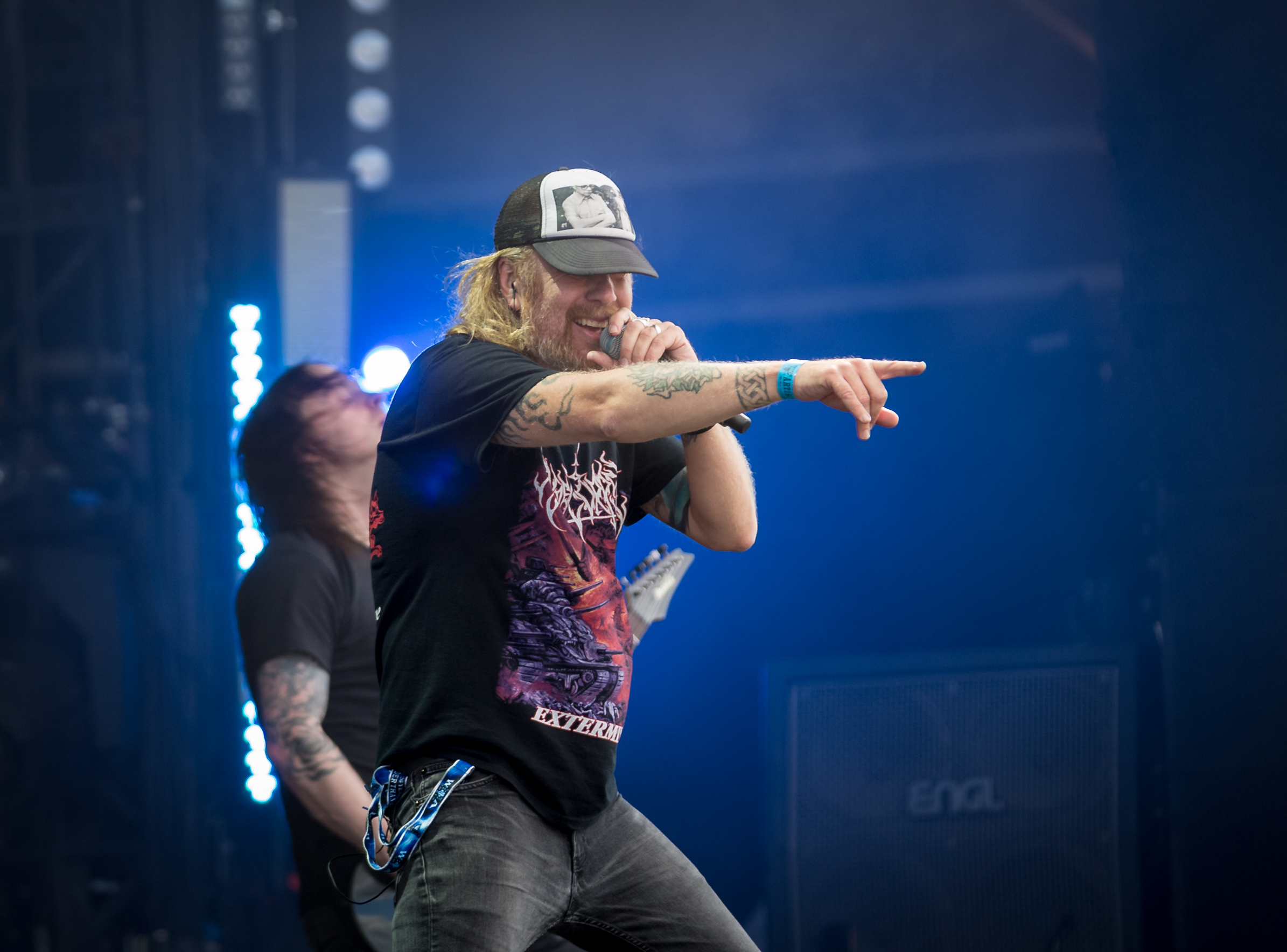 At The Gates - Wacken Open Air 2015